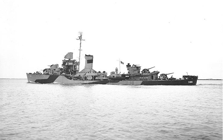 USS Bagley (DD-386) in camouflage scheme Measure 31, Design 1d, off the Mare Island Navy Yard.